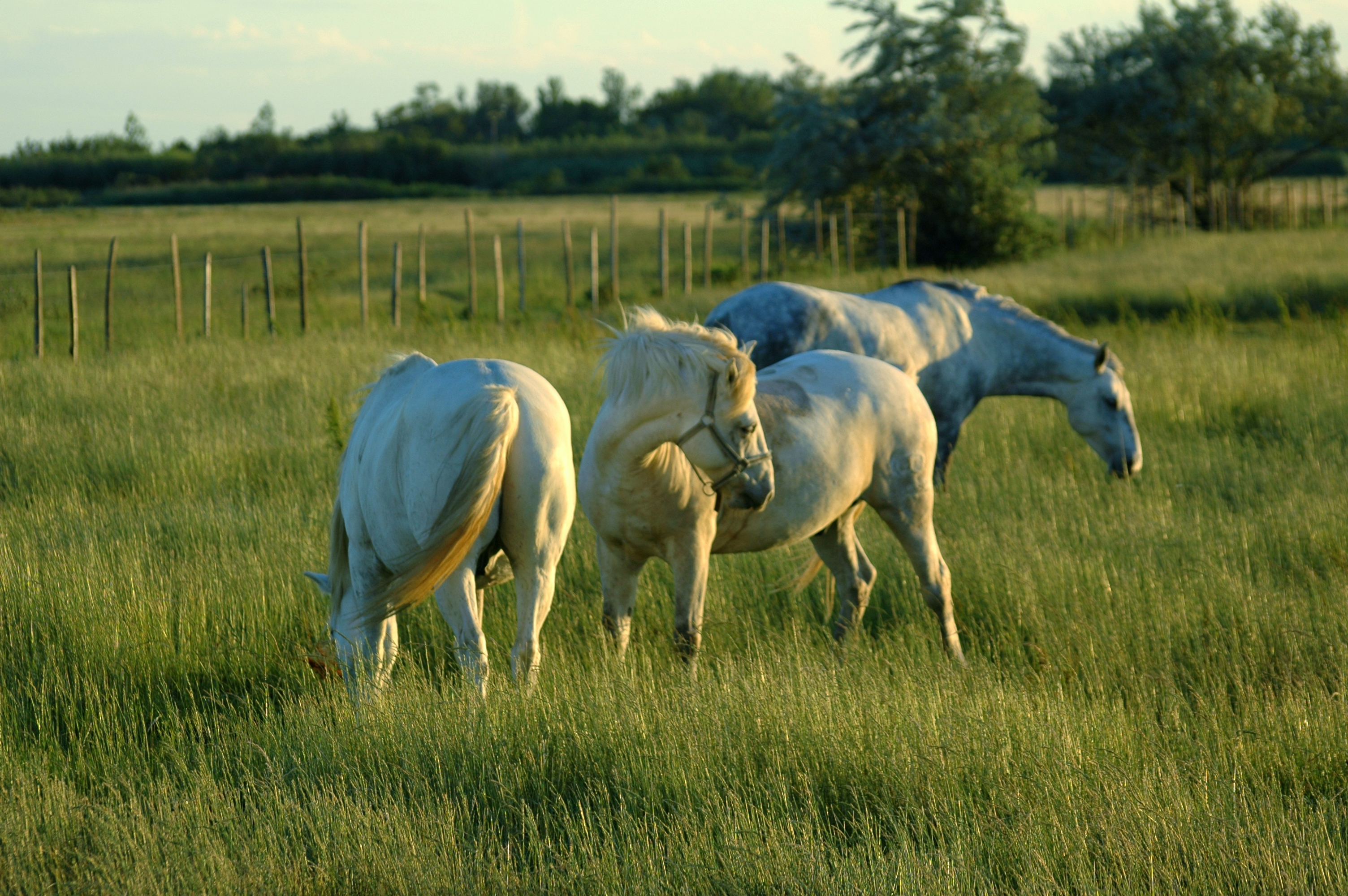 three horses standing on a pasture in the Camargue